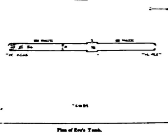 Plan of Eves tomb by Sir Richard Francis Burton, from "Personal Narrative of a Pilgrimage to El Medinah and Meccah" (1857)